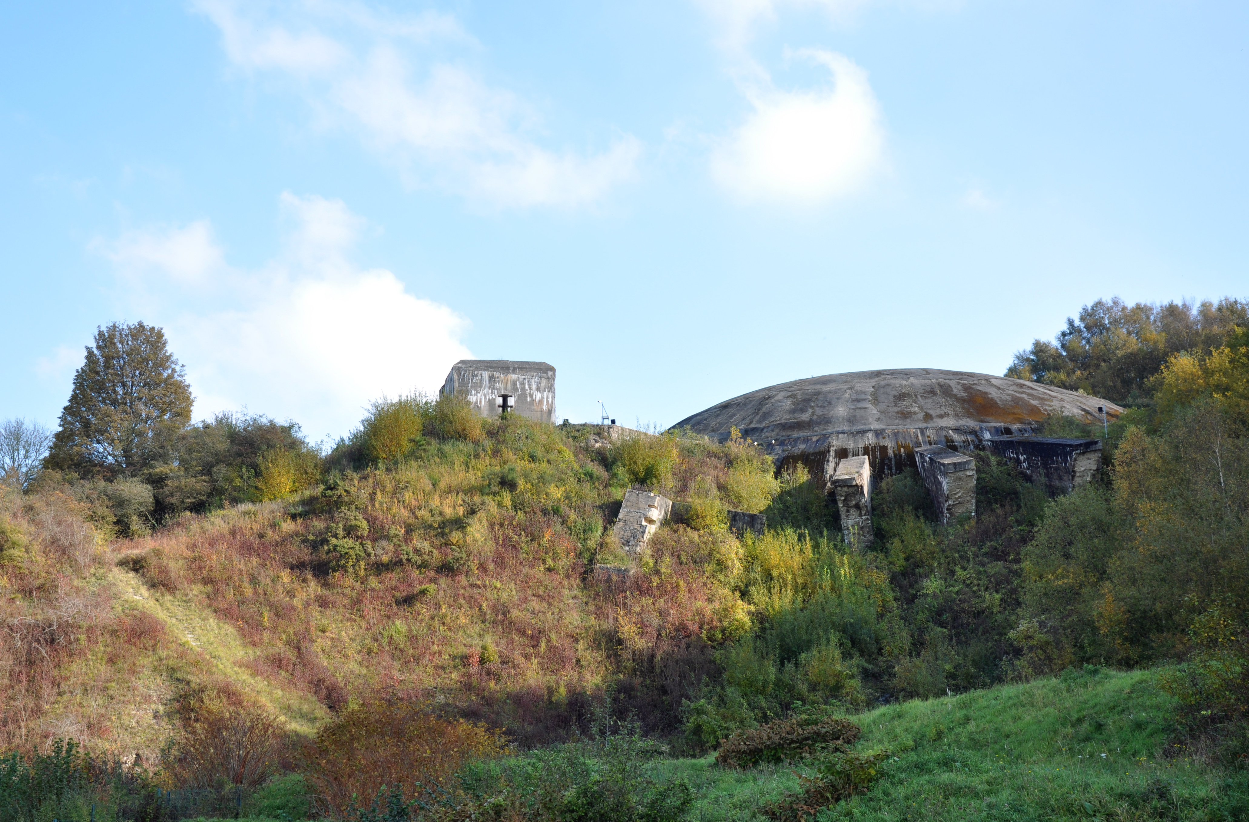 The entrance of the Coupole d'Helfaut.